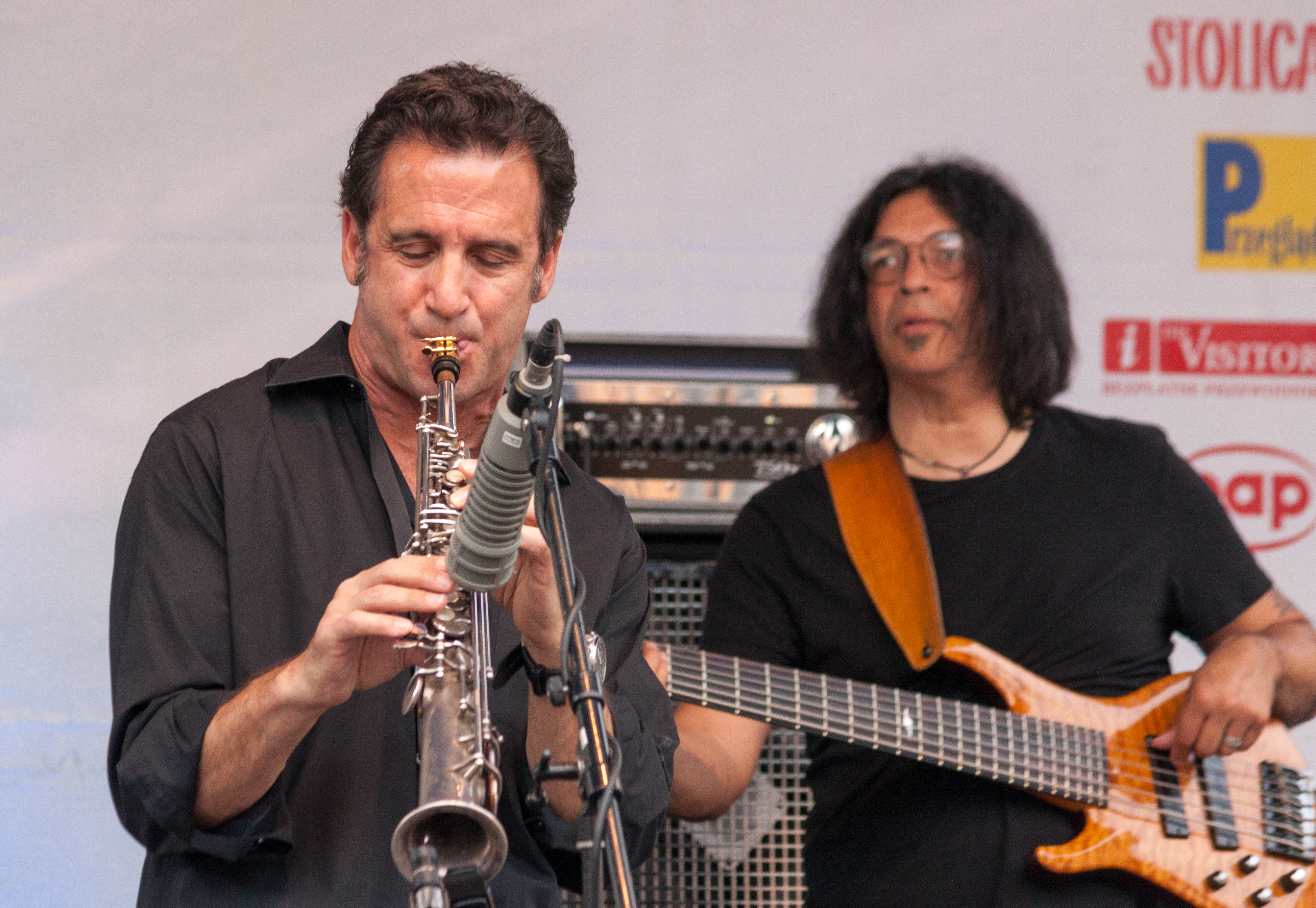 Jeff Lorber feat. Eric Marienthal - Jazz na Starówce festival 2012-08-04, Warsaw, Poland